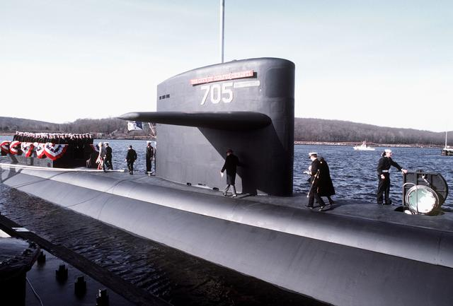 USS City of Corpus Christi (SSN-705)